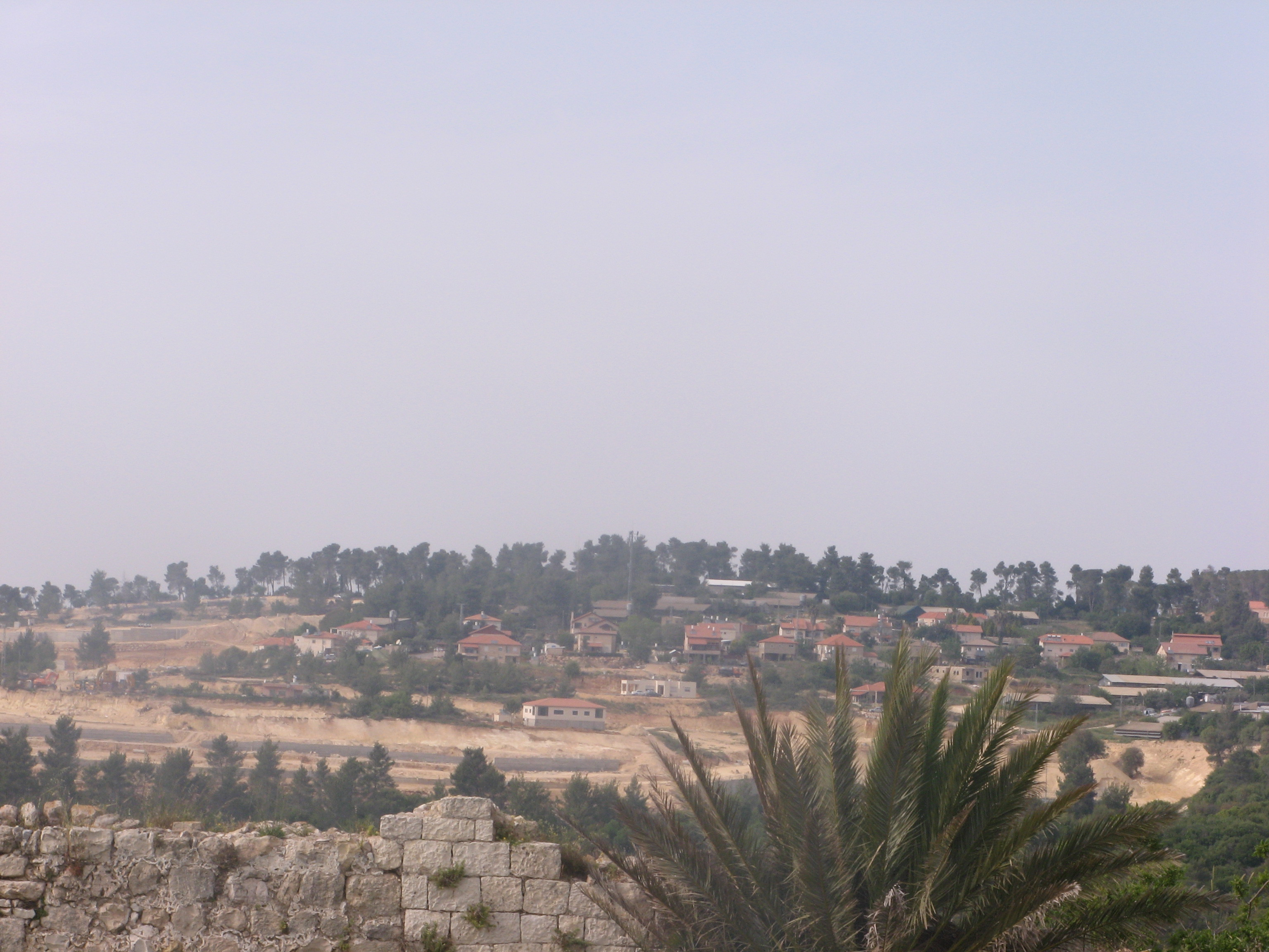 Nes Harim from Bayt 'Itab